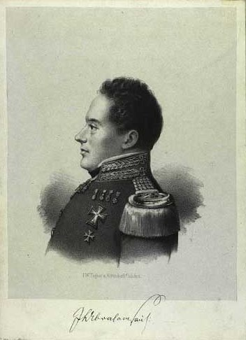 Joseph Nicolai Benjamin Abrahamson (1789-1847), Danish army officer and educator